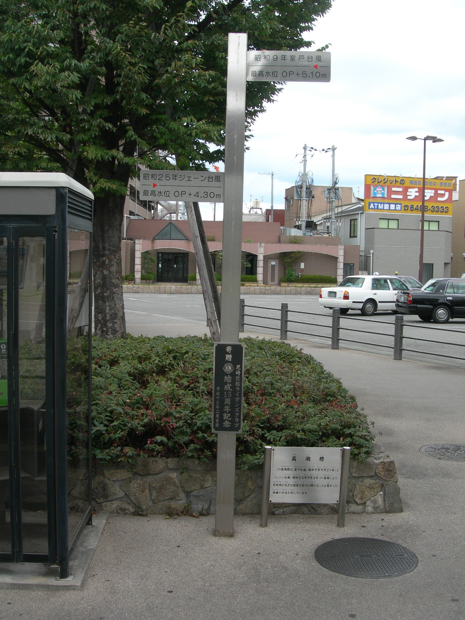 Sign storm surge from 1934 Muroto typhoon and "1950 Typhoon Jane", JR West Amagasaki Station South gate. Amagasaki, Hyogo.